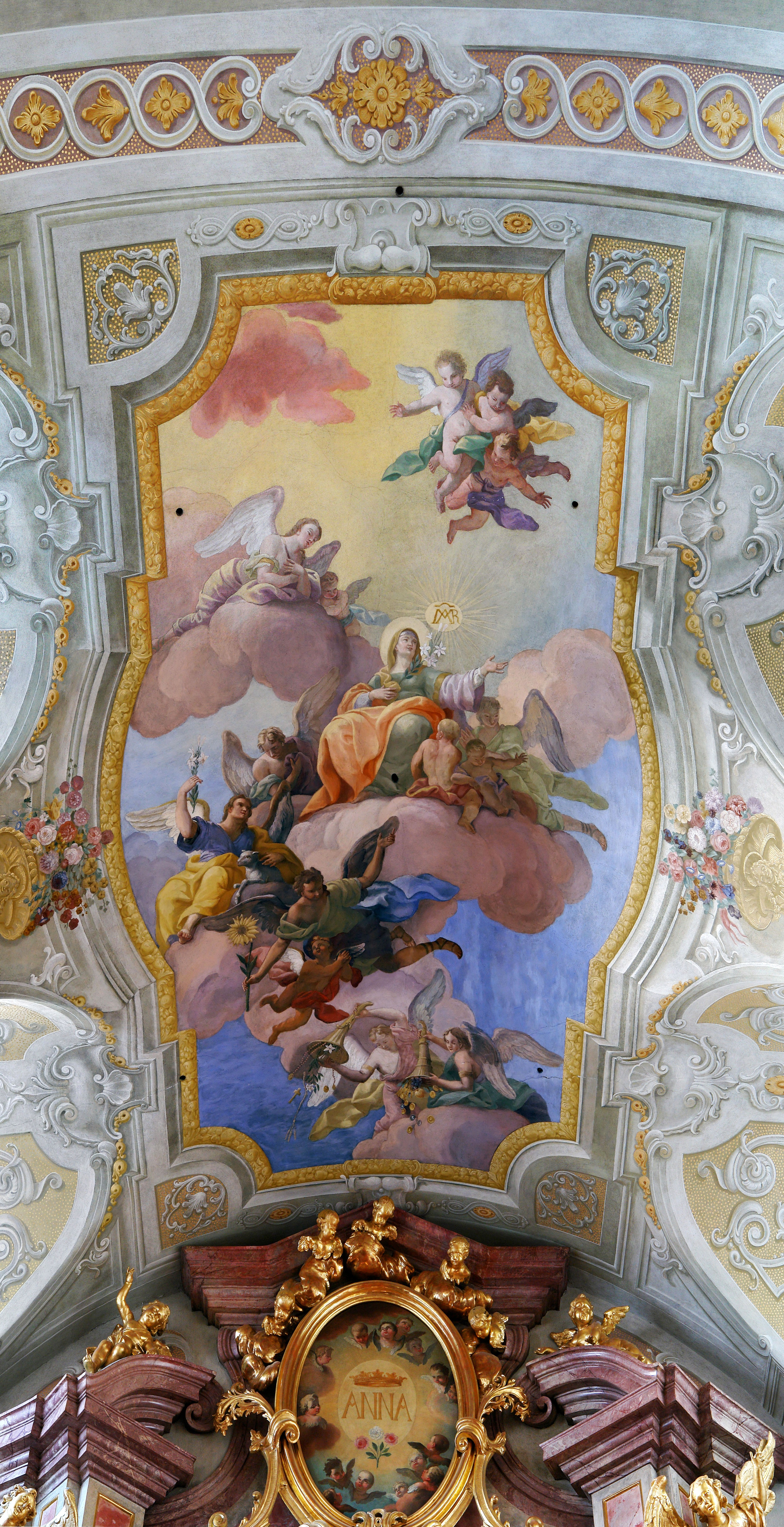 Glory of the St. Anna standing next to the radiating sign of MARIA (Annakirche, Vienna) Ceiling painting made by Daniel Gran (1694-1757). Post-processing: 10 pictures stiching and high-pass sharpening